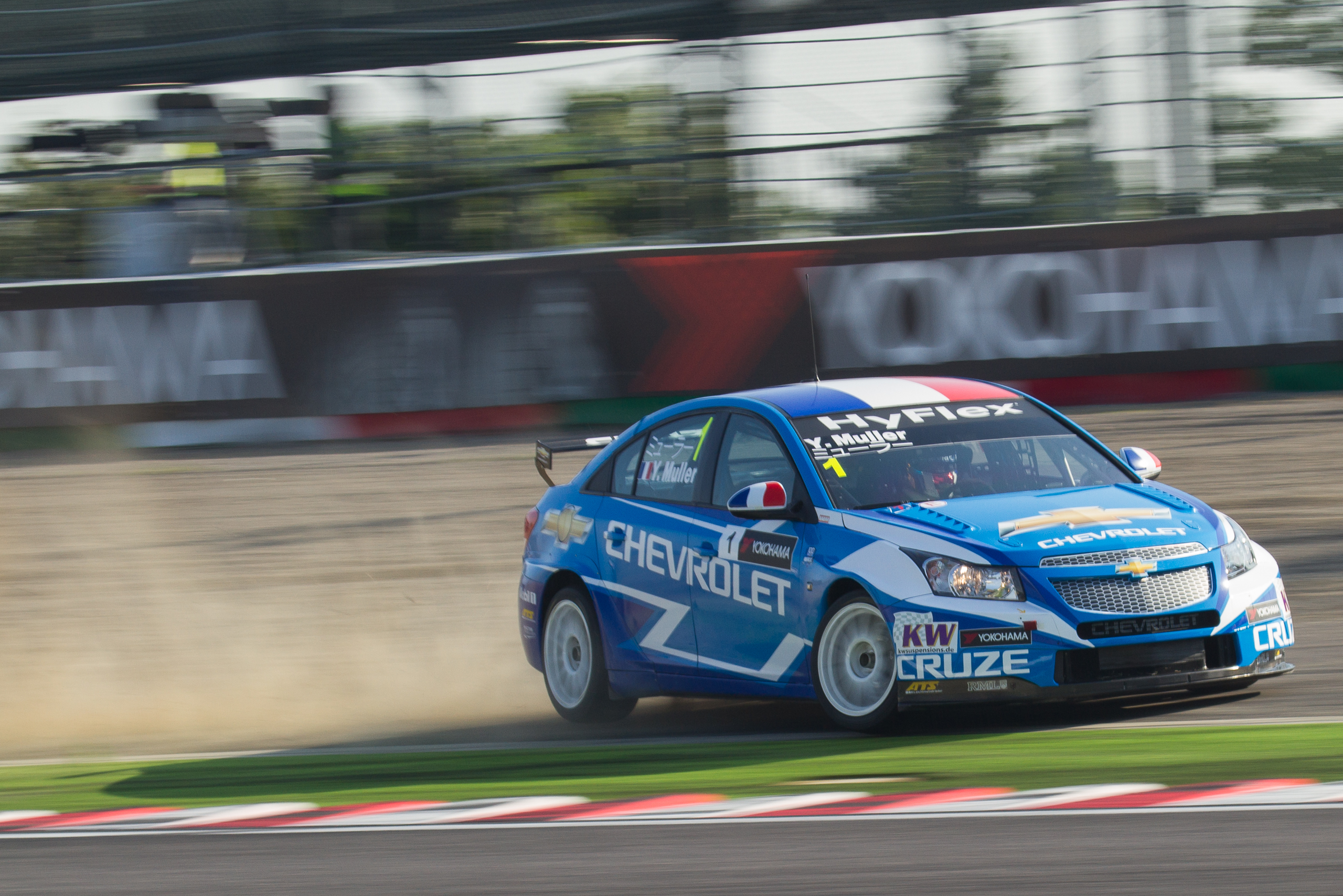 World Touring Car Championship 2012 Race of Japan: Yvan Muller (Chevrolet) driving the Chevrolet Cruze WTCC.